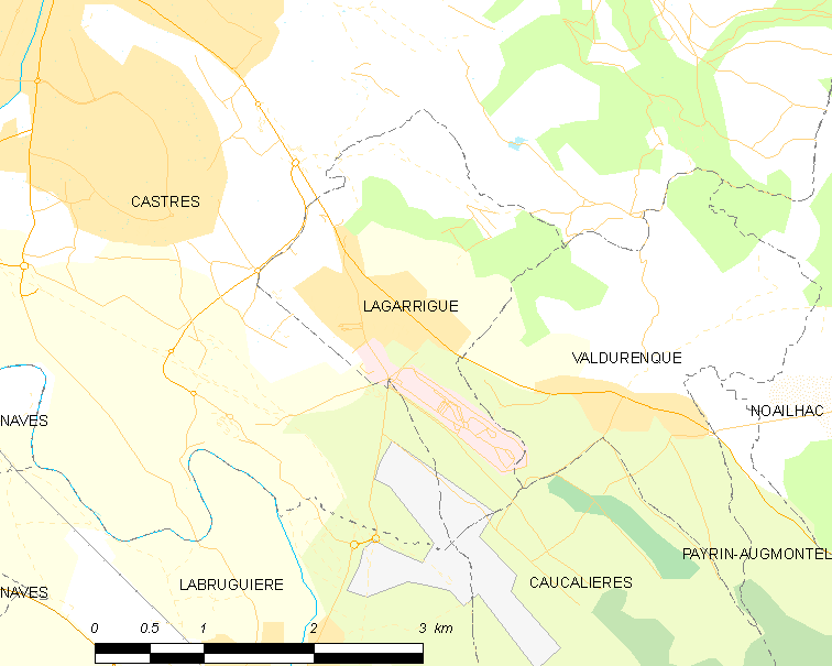 Map commune FR insee code 81130.png - Lagarrigue (Tarn)